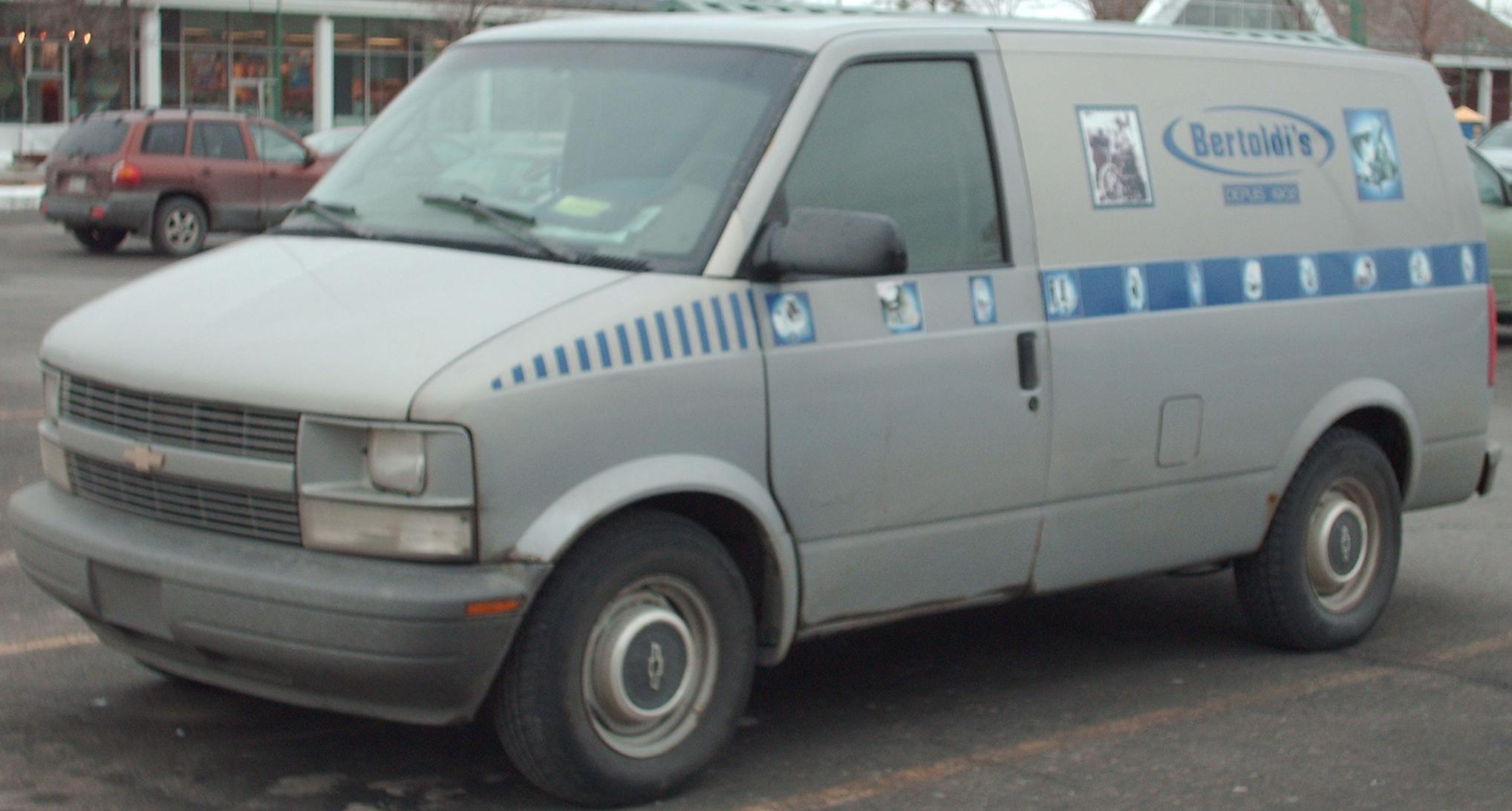 2003-2005 Chevrolet Astro photographed in Montreal, Quebec, Canada.